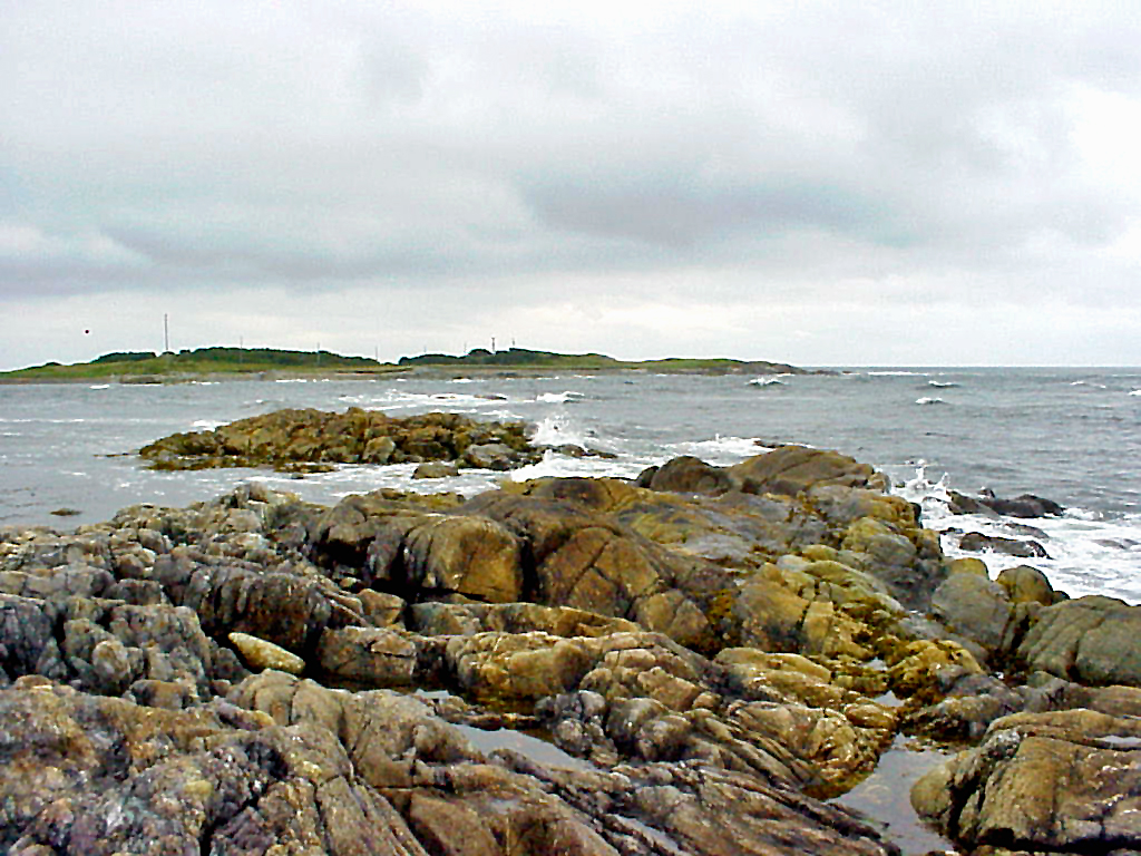 PLEASE, no multi invitations in your comments. DO NOT FEEL YOU HAVE TO COMMENT.Thanks. This is an old picture, when digital first came out. Body of Water: Forchu Harbour County: Richmond Scenic Drive: Fleur-de-lis Trail Tower Height: 032ft Height Above Water: 048ft Characteristic: Fixed White (1992) Still standing:True Still operating:True